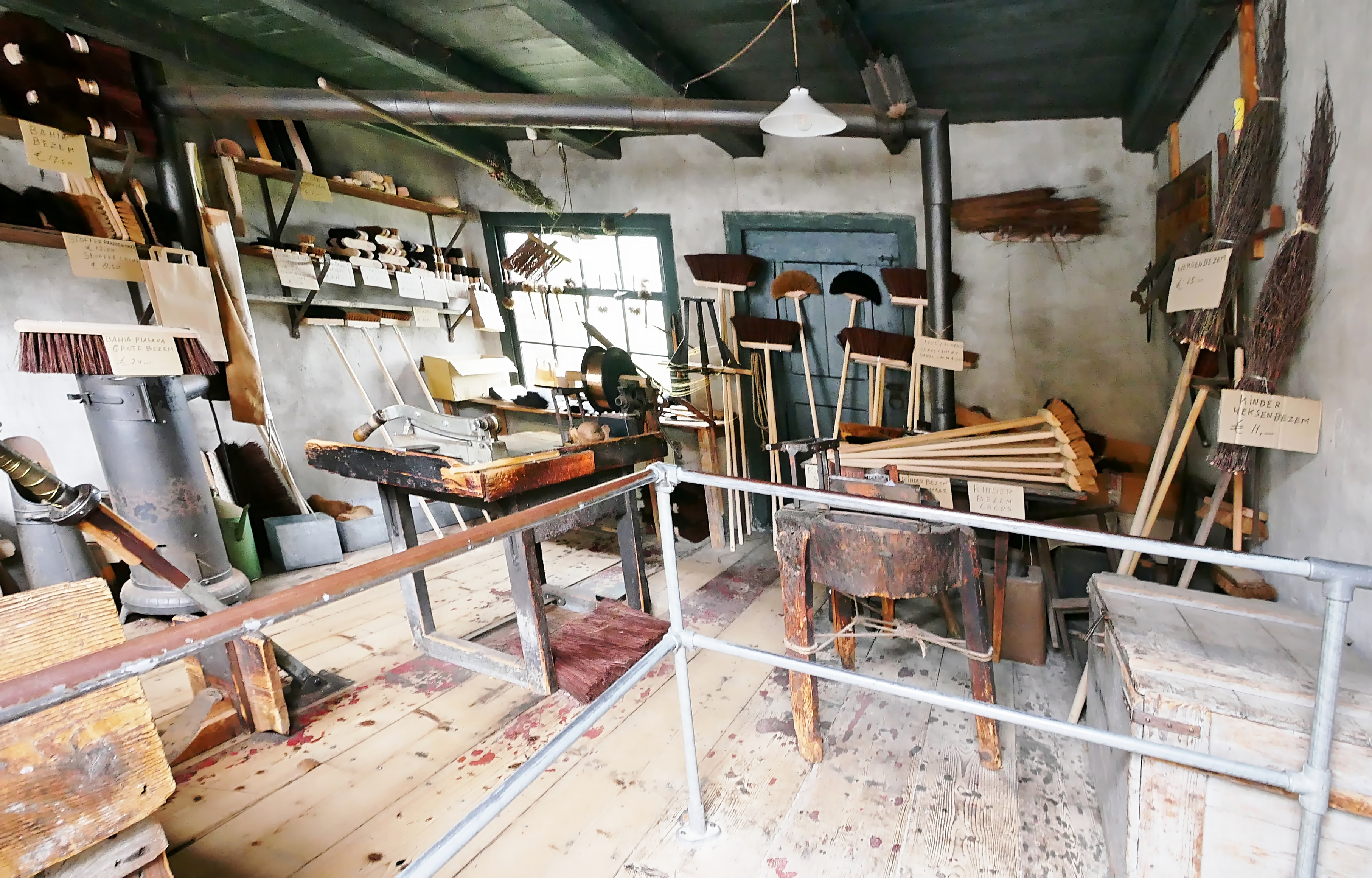 Zuiderzeemuseum Buitenmuseum Workshops - broom binder / Broomsquires